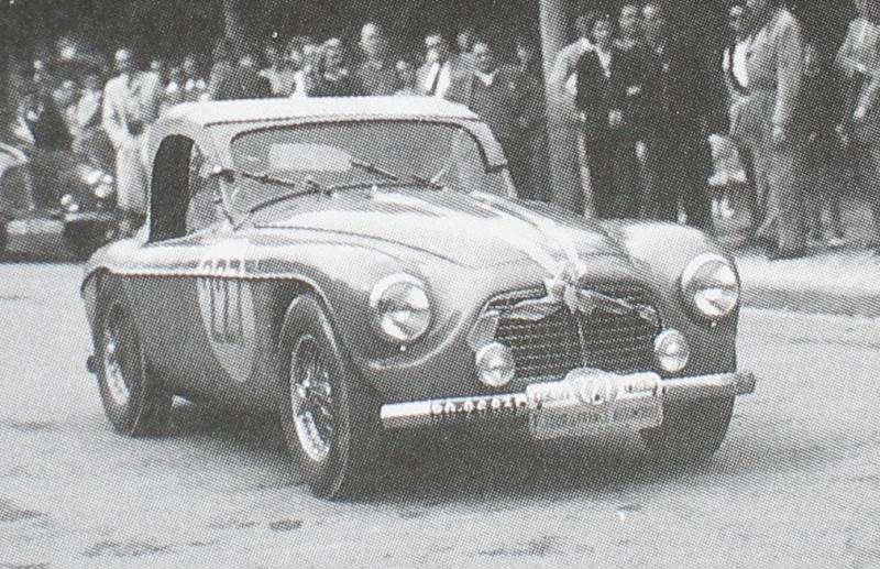 1951 Tour de France automobile was won by Pierre "Pagnibon" Boncompagni (far left) and navigator Alfred Barraquet driving the 1951 Ferrari 212 Export Touring Barchetta s/n 0078E. The race was 5 239 km and started 30 August in Nice and lasted to 12 September 1951 with arrival back in Nice. Boncompagni was from Nice and the car was/may have been borrowed from Luigi Chinetti.[1]